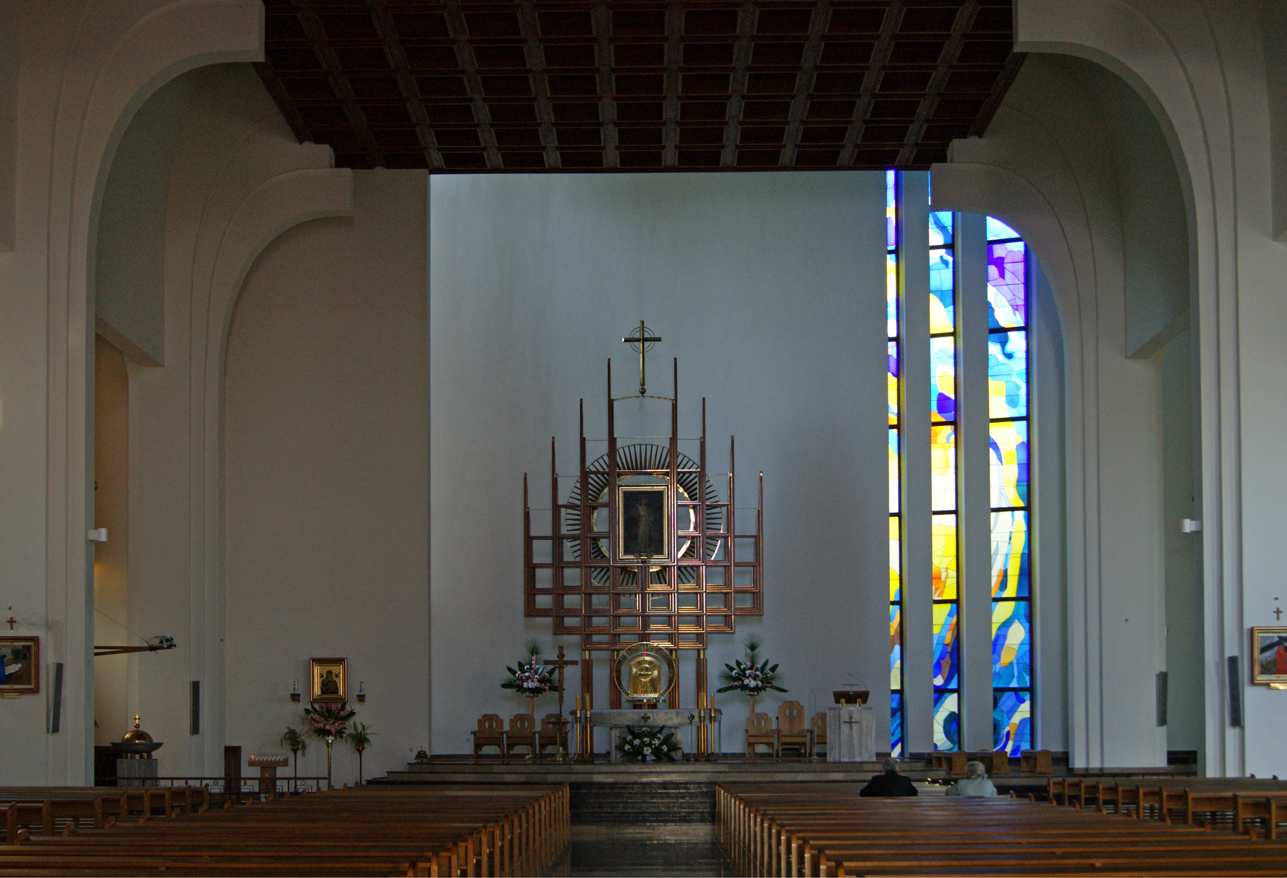 Divine Mercy Church (interior), 1a osiedle Na Wzgorzach, Nowa Huta, Krakow, Poland